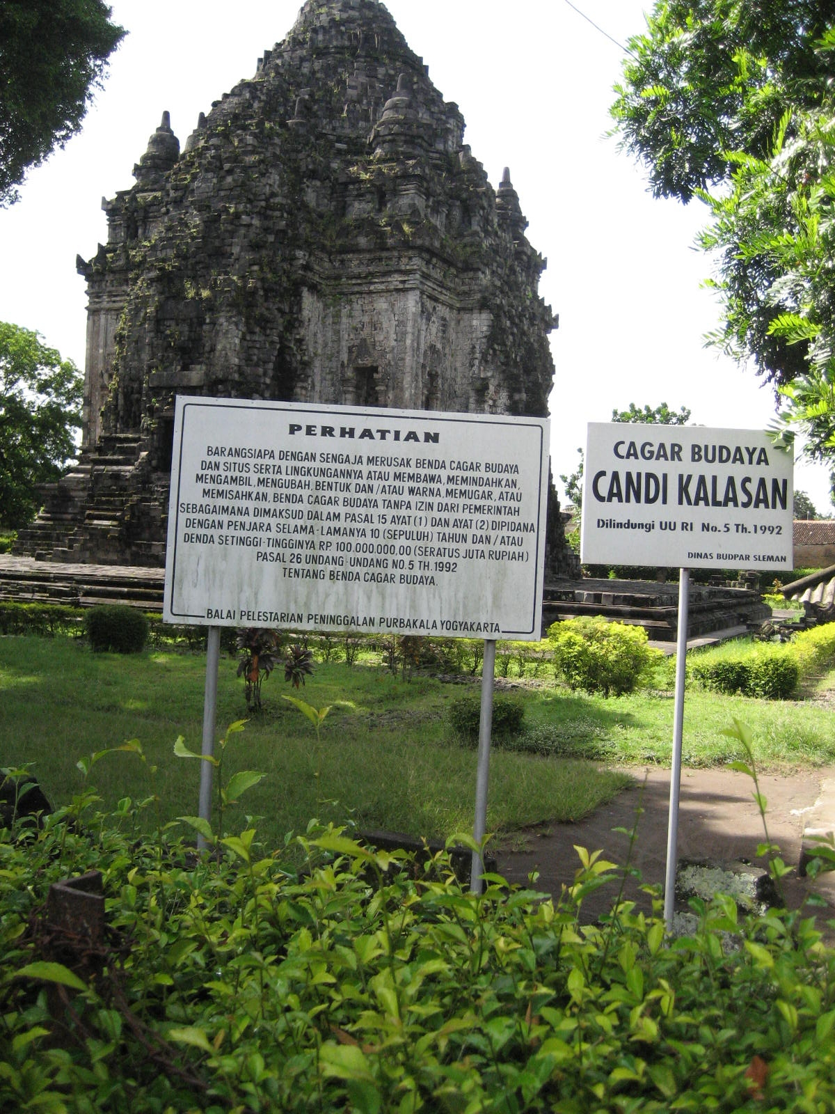 Candi Kalasan (Buddhist temple) in Central Java, Yogyakarta